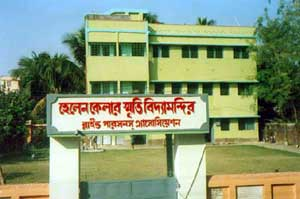 Hellen Keller School